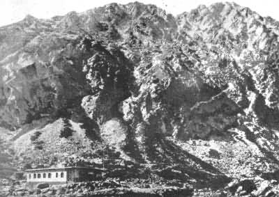 Hungarian Karpathian Society (MKE) mountain hut "Sziléziai-ház" (Silesian house) in Velická valley, now Slovakia - 1895-1908